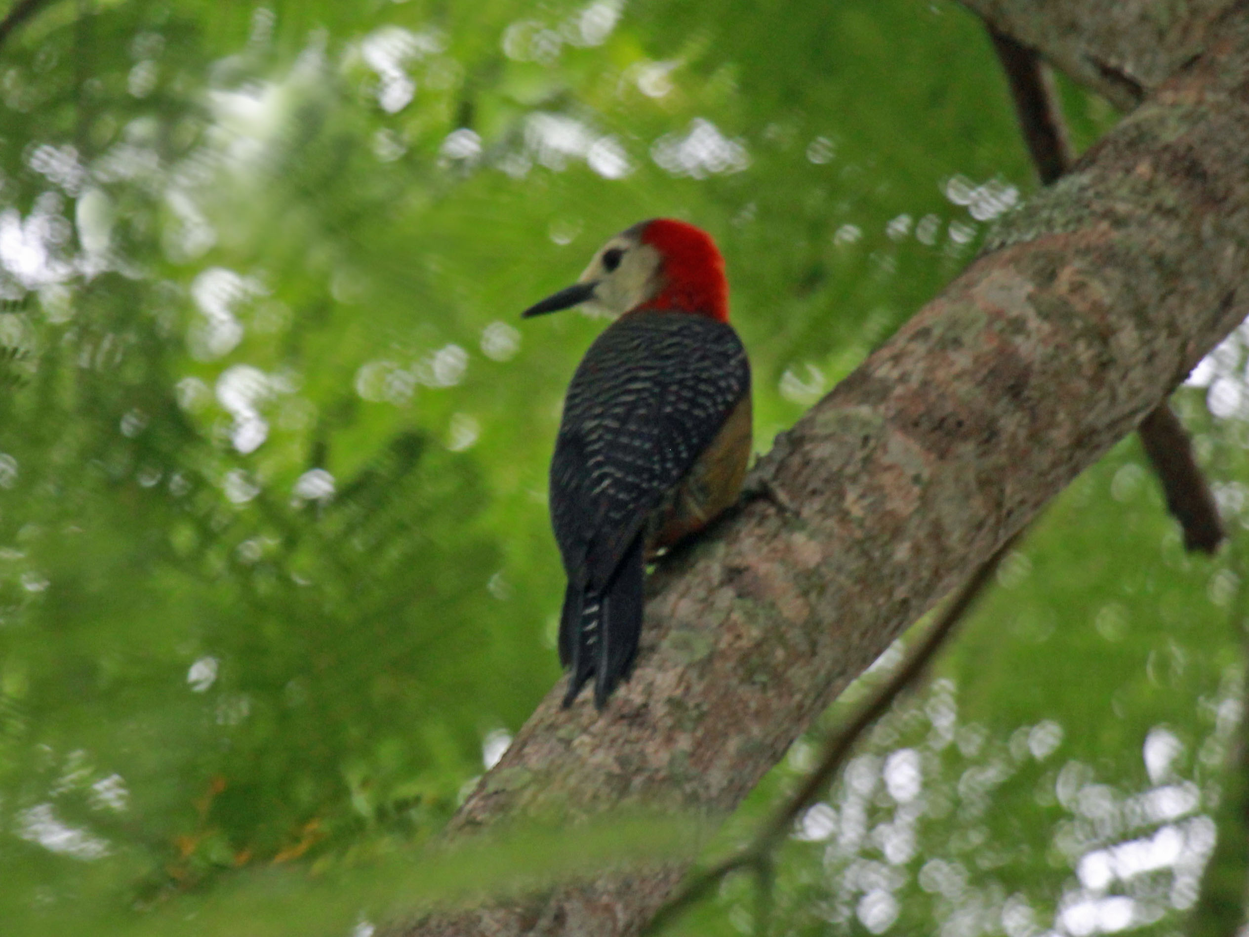 Jamaican Woodpecker (Melanerpes radiolatus) - Rockland Feeding Station, Jamaica